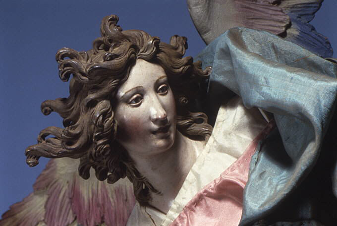 Italian, Naples; Crèche figure; Crèche